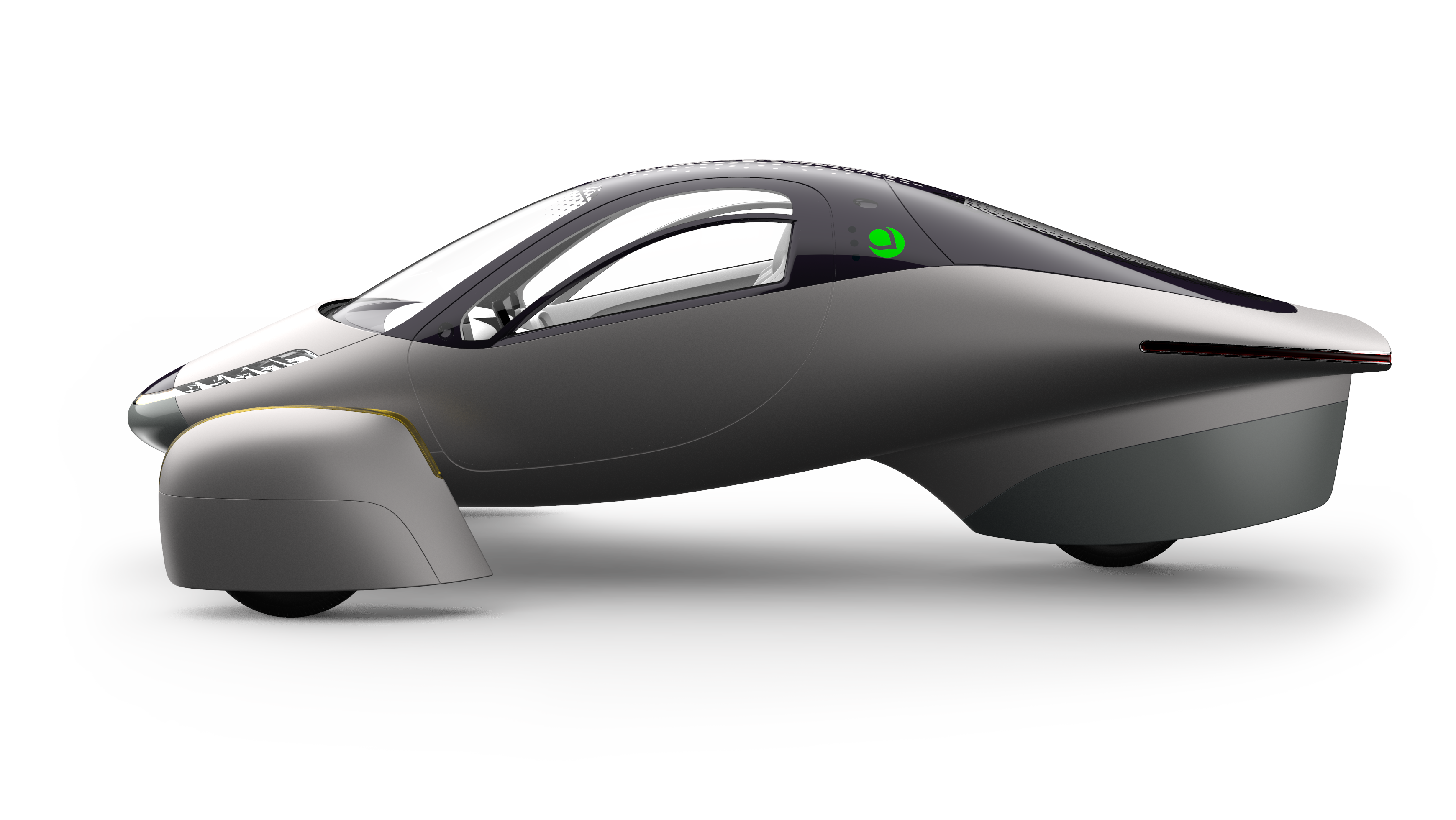 The Aptera Motors EV, a rendering of 2019 body design, side view.